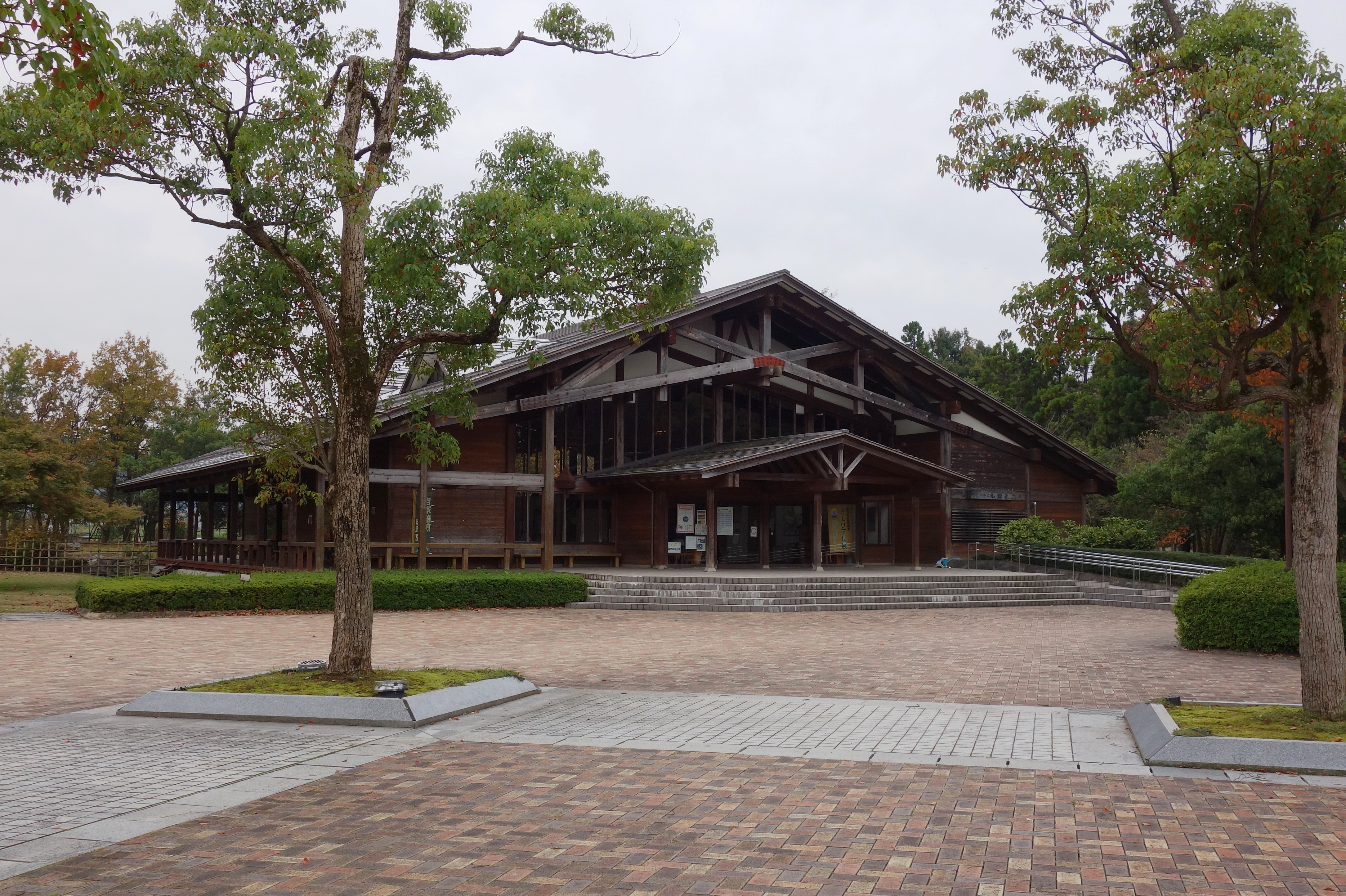 Woodhouse Kuzuryu, Fukui-ken Sogo Green Center (Sakai-shi, Fukui Pref., Japan)